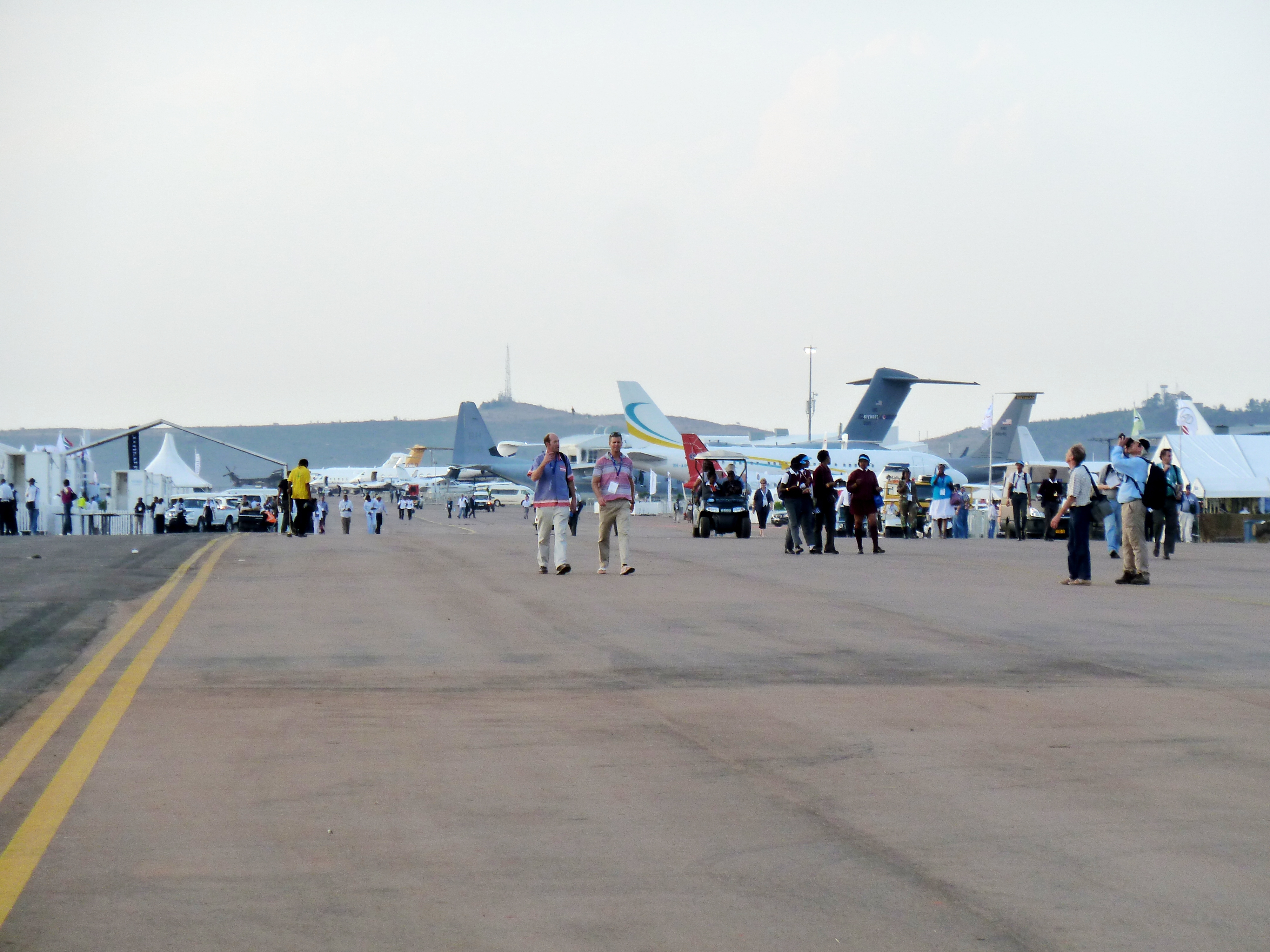 Visitors and planes at the Africa Aerospace and Defence Expo 2012, at Waterkloof AFB, Pretoria